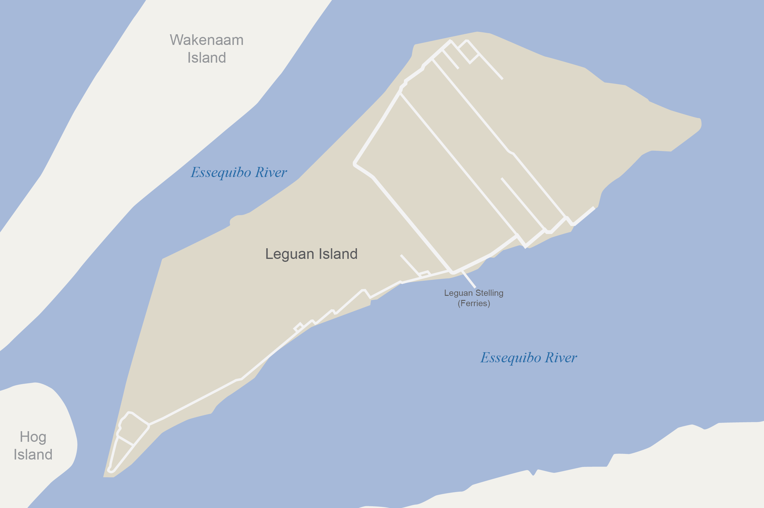 A locator map of Leguan Island in Guyana, South America.